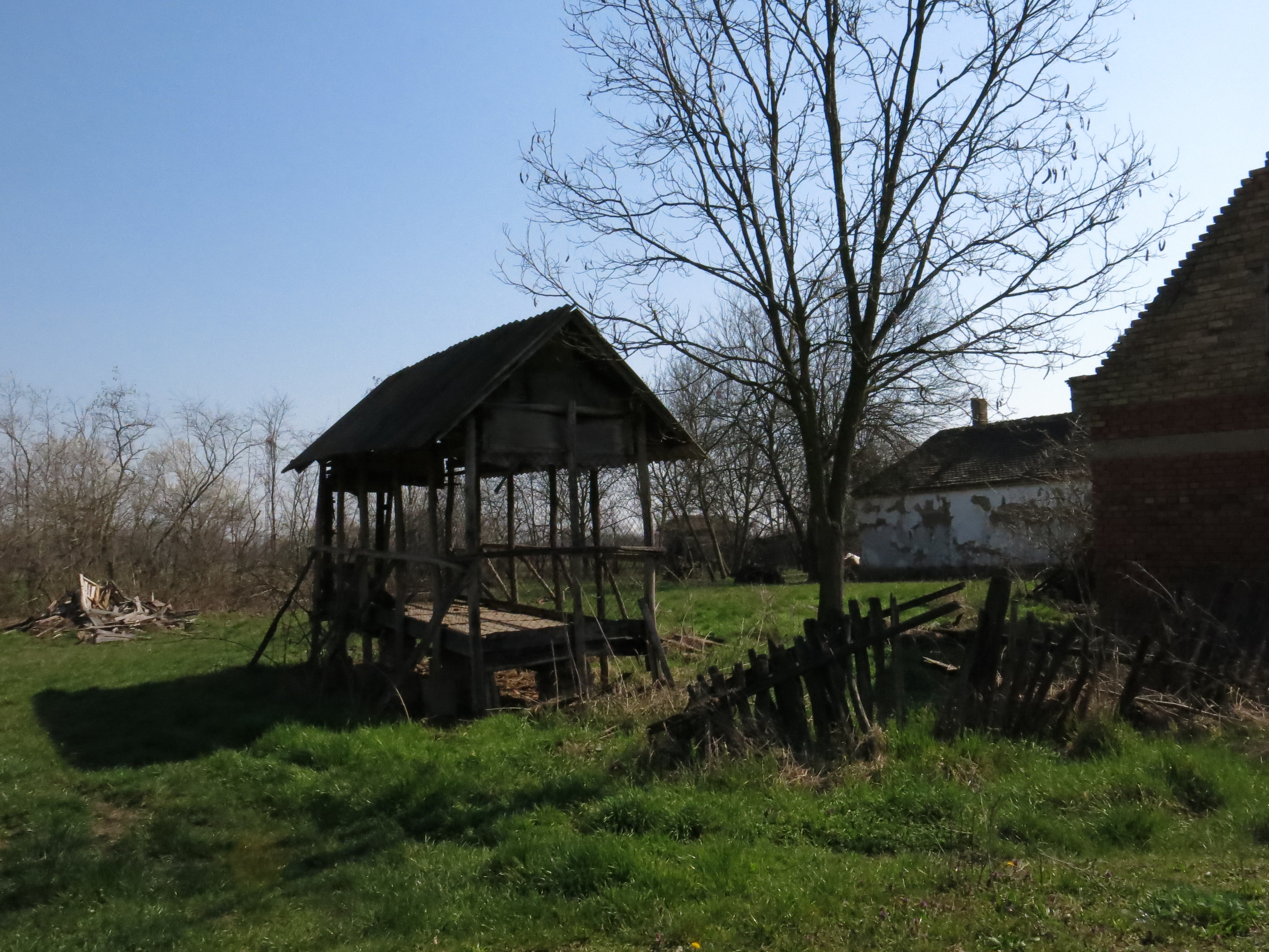 Ušće, Old house